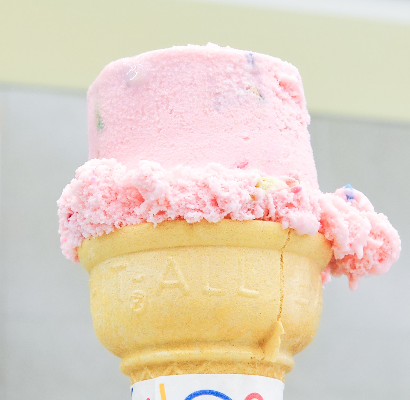 Thrifty ice cream: a single, hand-scooped serving of Circus Animal Cookies ice cream, made with real Mother's Cookies, on a cake cone. Bought for $1.79 from the Thrifty Ice Cream counter inside a Rite Aid pharmacy (address: 1808 Wilshire Boulevard, Santa Monica 90403). Typical arrangement of dual cake cone dispensers is seen in background to left of cone, with top of sugar cone box peeking up at lower right.